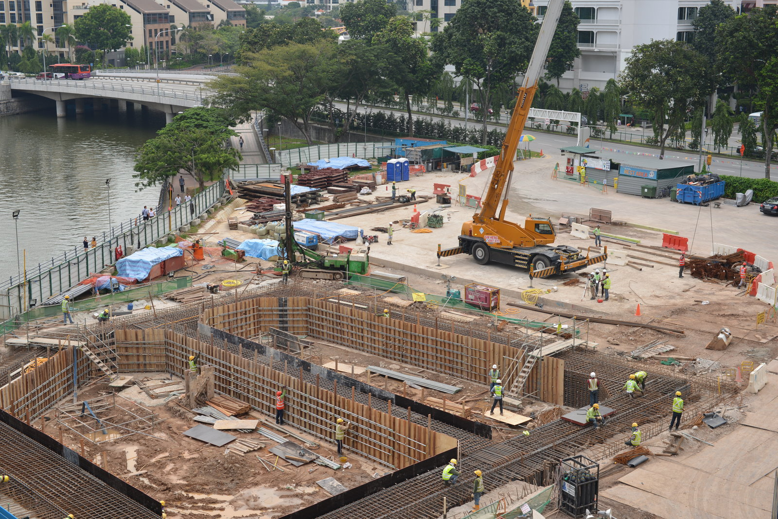 Construction of the Downtown Line next to Clemenceau Avenue and opposite Clarke Quay, Singapore.